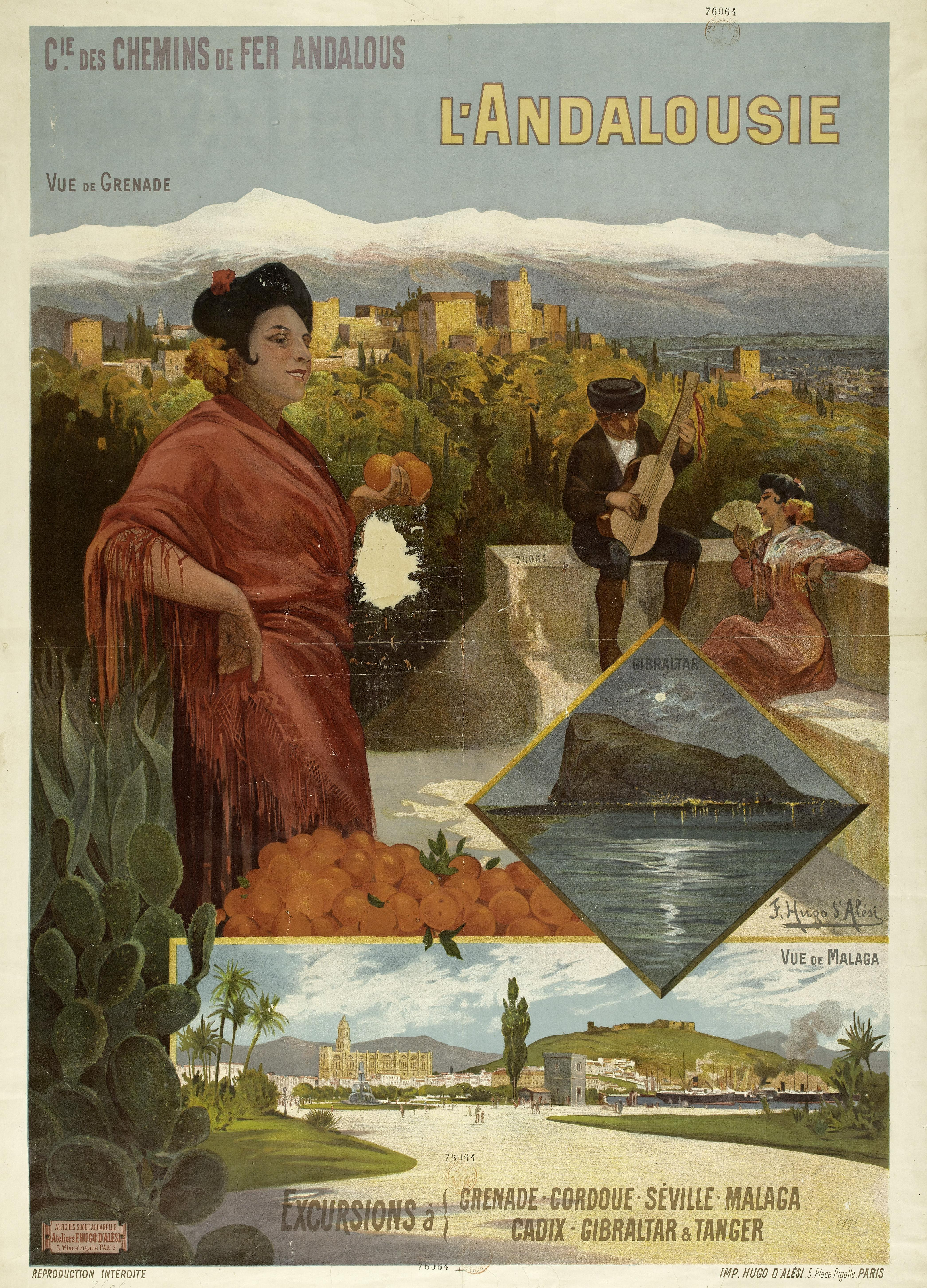 Cie des Chemins de Fer Andalous. L'Andalousie. Excursions à Grenade, Cordoue (...), Tanger (affiche)